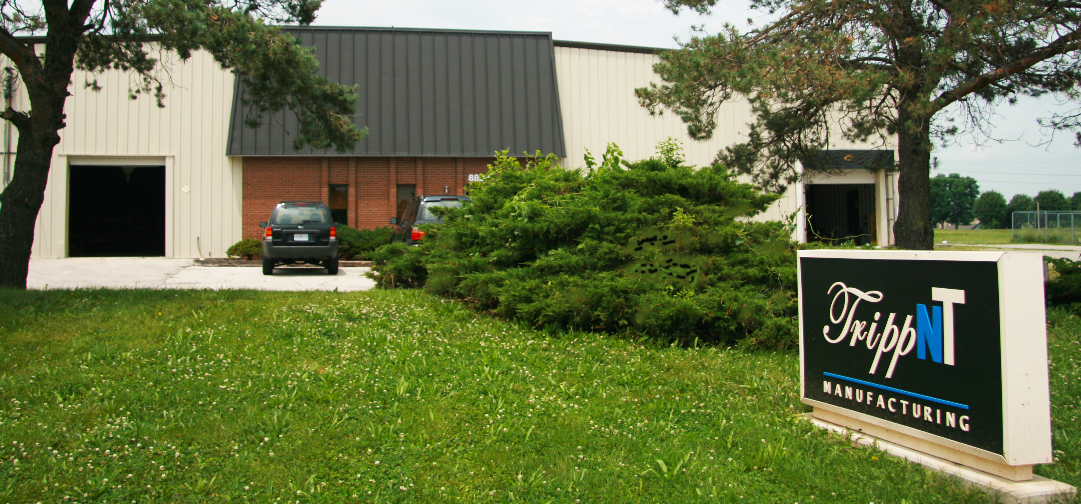 Exteriot photo of the front of the TrippNT building